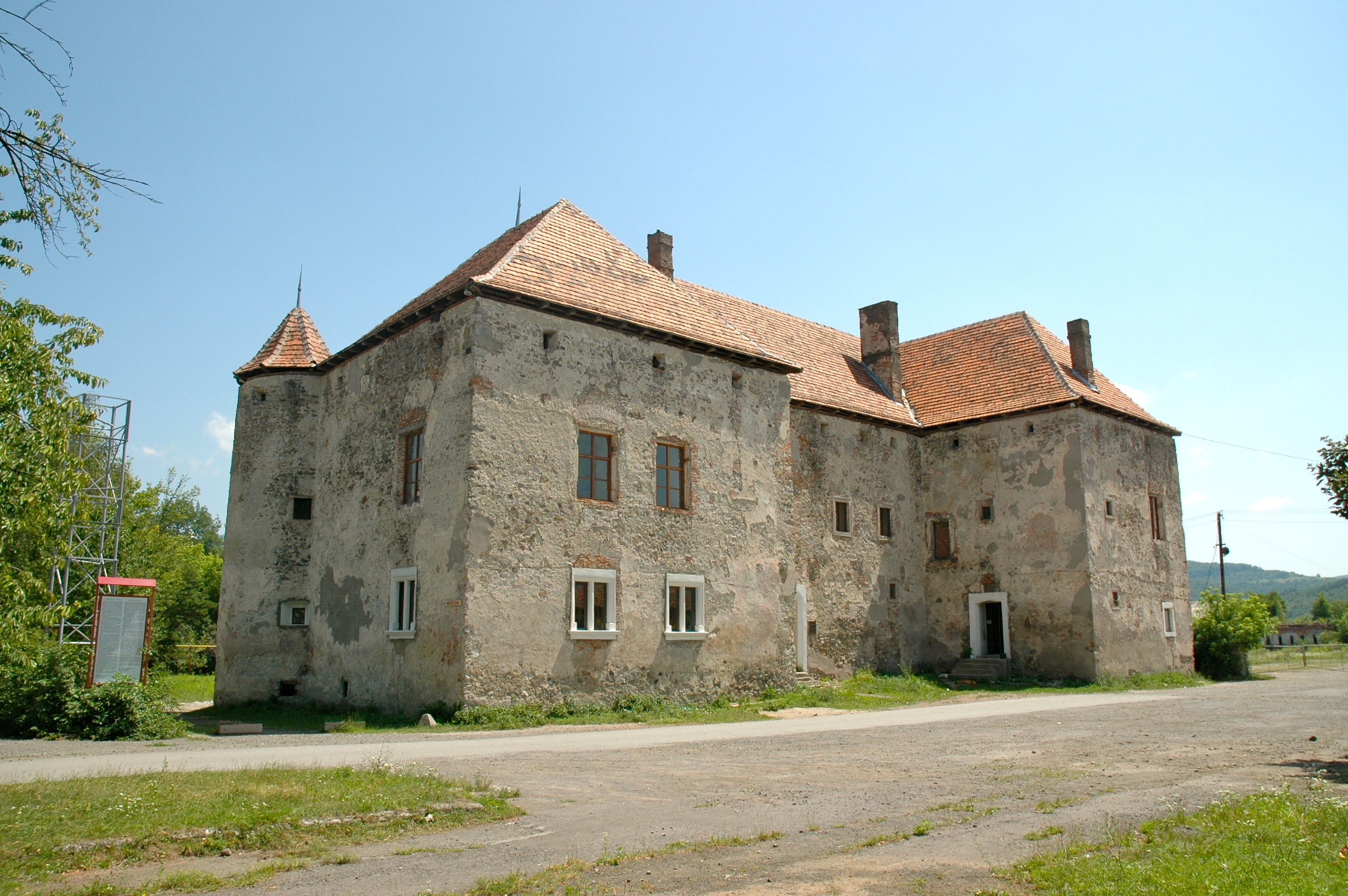 Telegdy-Rákóczi castle in Chynadiyovo